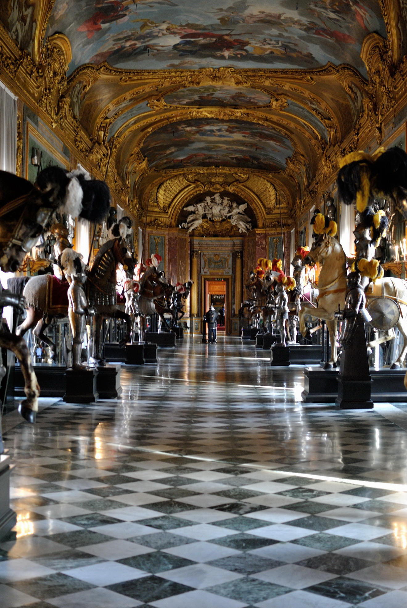 Beaumont’s Gallery (the surname of the painter who has decorated the vaults) from the south; seat to the Royal Armoury and is part of the Royal Palace of Turin (Italy)